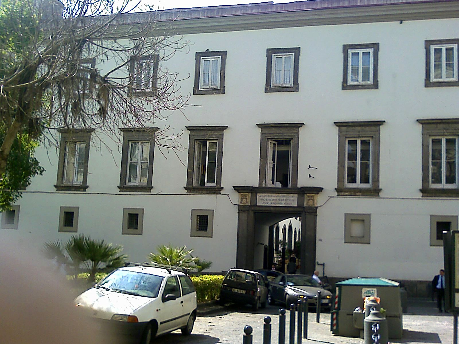 Palazzo Arcivescovile (Naples): Facade